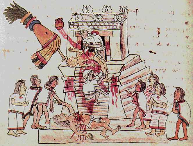 Ritual human sacrifice portrayed in Codex Magliabechiano (folio 70r).